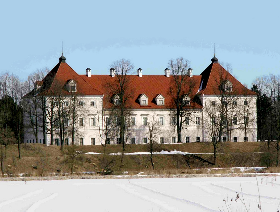 Biržai castle